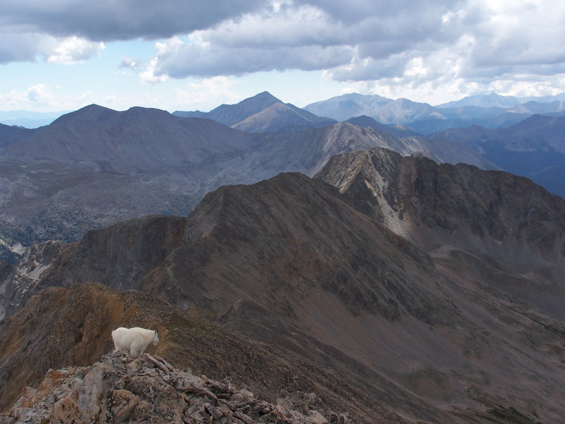 Mountain Goat - Oreamnos Americanus - on Mount Huron in Colorado, USA